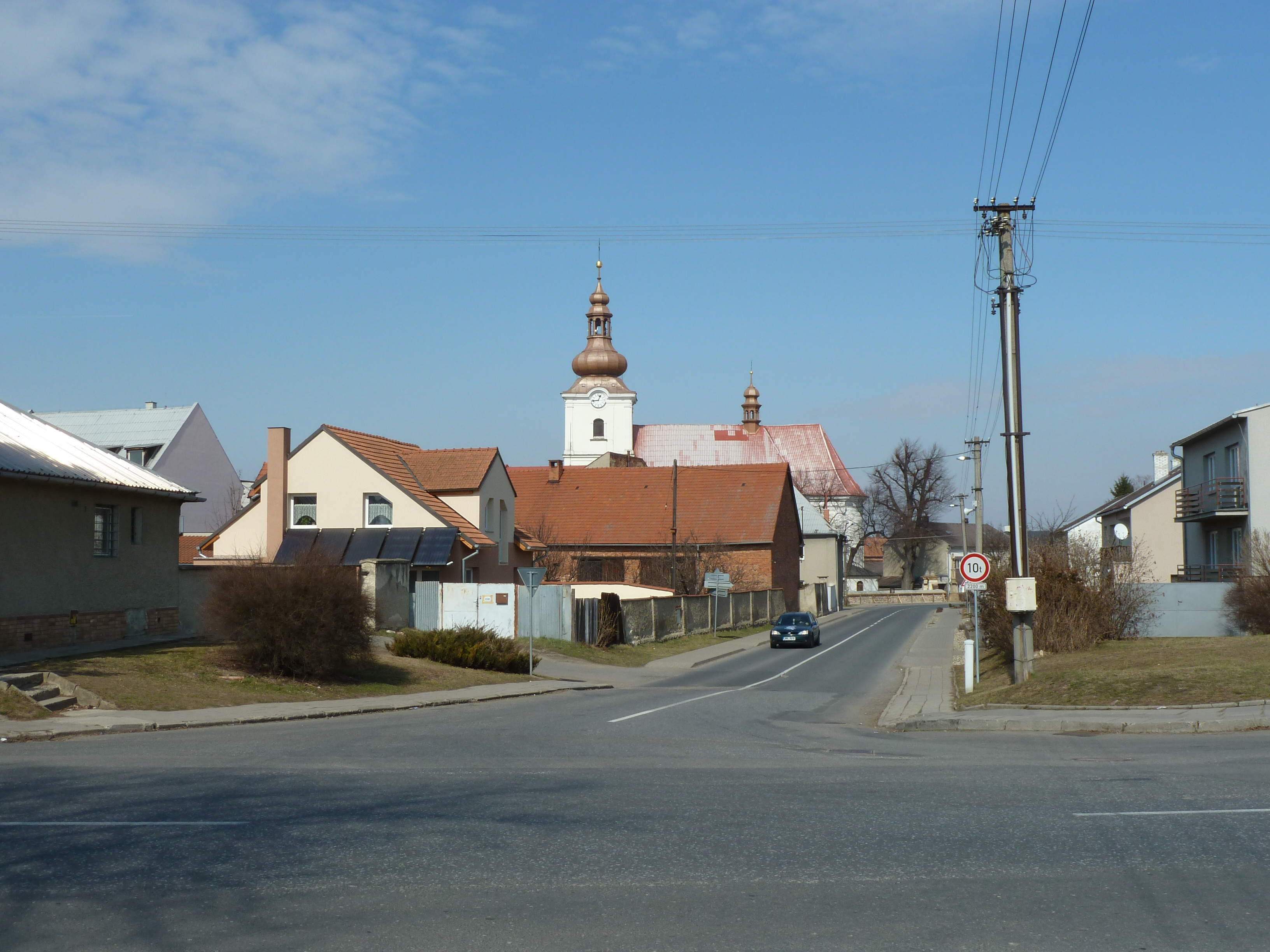 Hněvotín in Olomouc District, Czech Republic. Street to the church of St. Leonard.